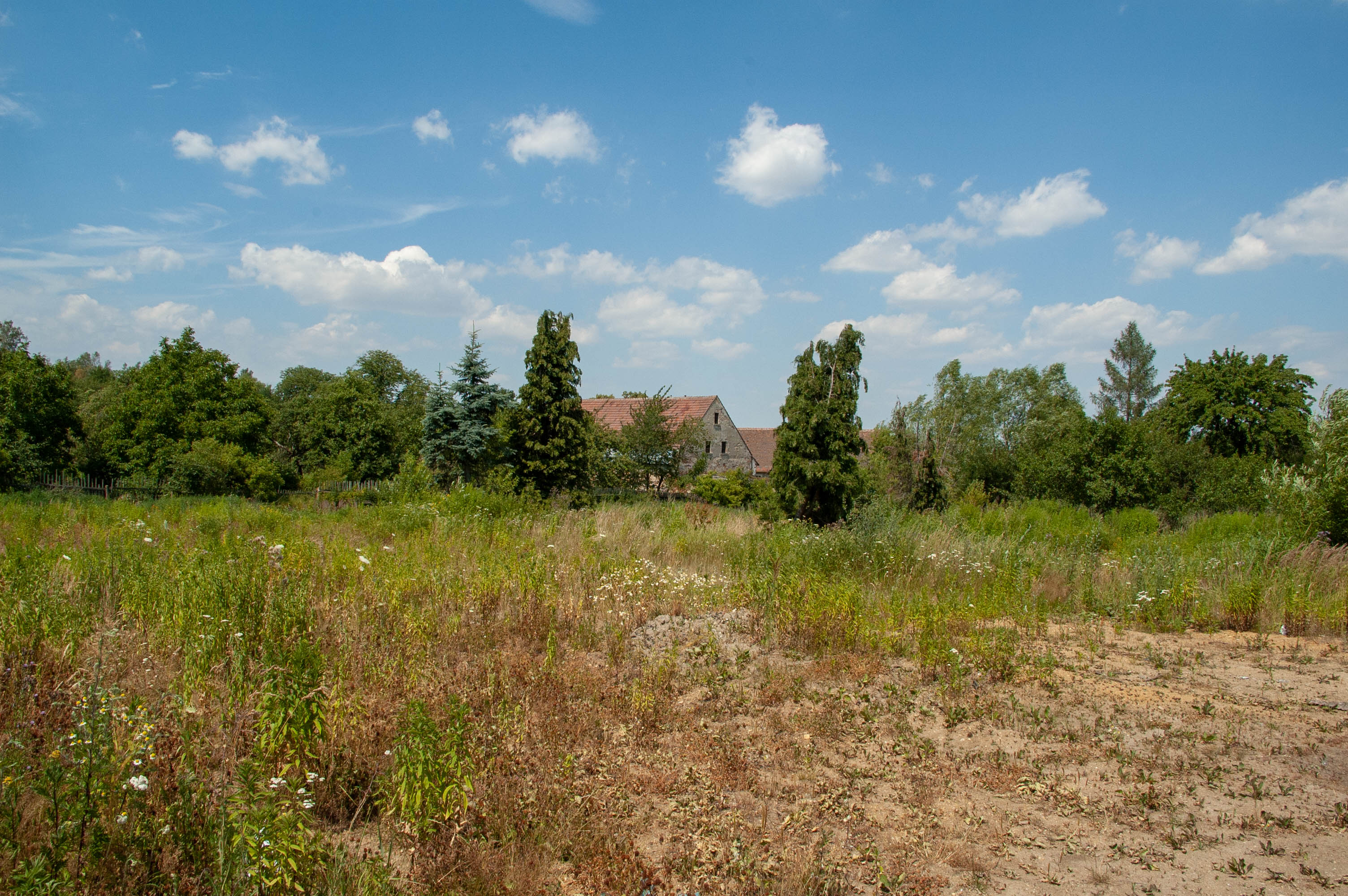 House and nature of the rests of Białopole village, Lower Silesian Voivodeship, Poland.